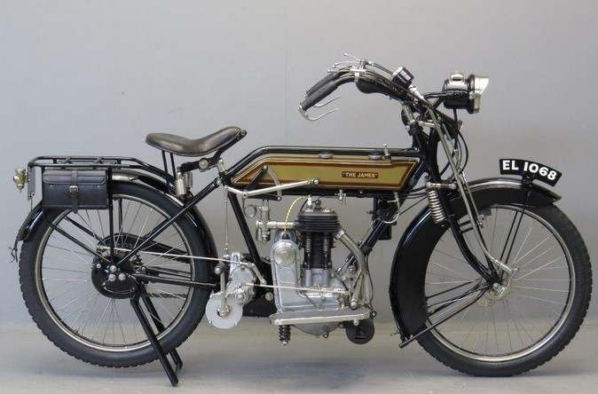 1913 James 558 cc side valve 3-speed motorcycle